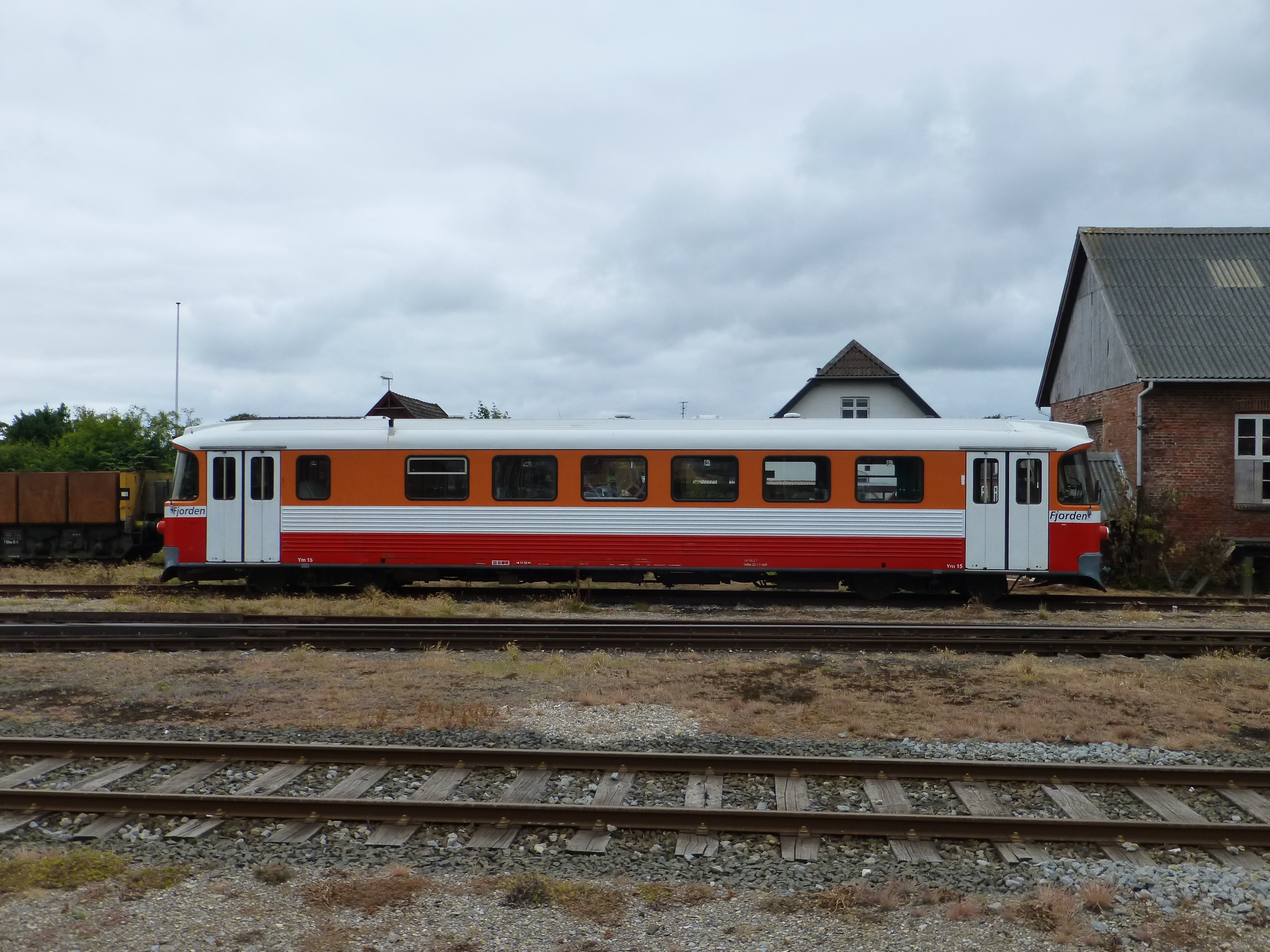 Diesel multiple unit known as Y-tog at Lemvig Station in Denmark. MJbaD YM 15 "Fjorden".